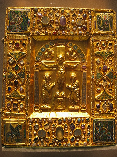 Reliquary-box with the resurrection of Christ and symbols of the evangelists. Gold, cloisonné enamel, niello and cabochons over wood, first half of the 11th century. Used to hold the oath of the dukes of Brabant. From the treasure of the Maastricht Cathedral.